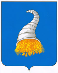 Coat of Arms of Kungur, Perm krai, Russia